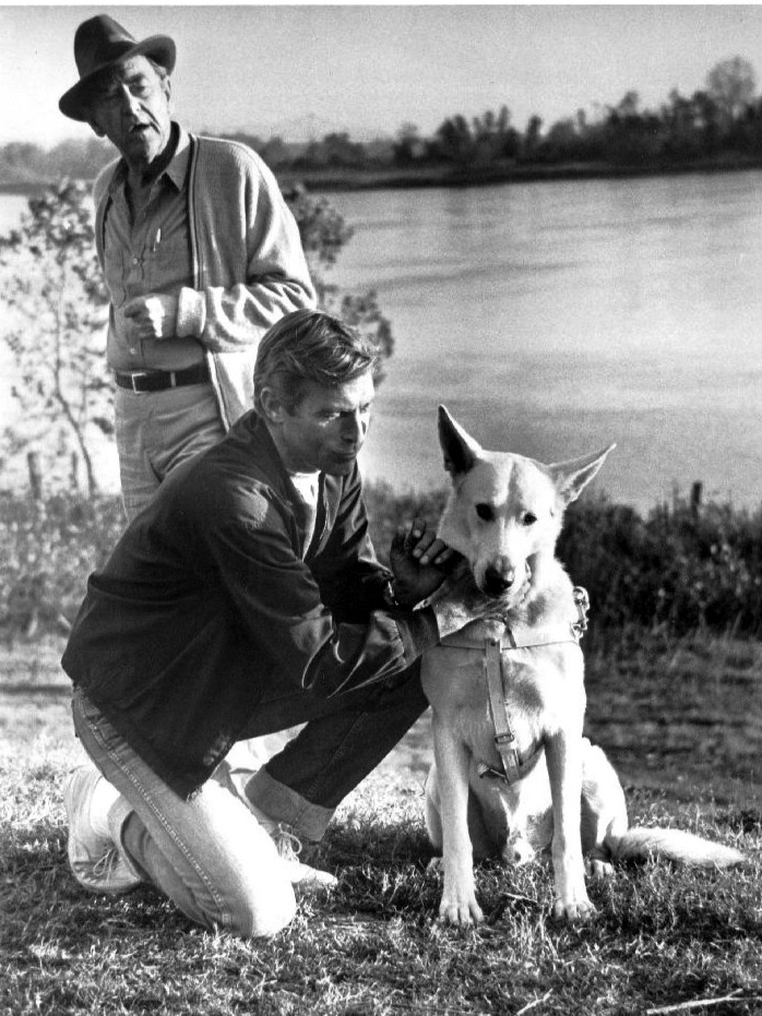 Photo of James Franciscus as Mike Longstreet and John McIntire as a counselor from the beginning of the television program Longstreet. Longstreet, a newly blinded insurance investigator, copes with the loss of both his sight and his wife; the explosion that cost him his vision also killed his wife. McIntire plays a counselor who tries to help him adjust. Longstreet's guide dog, Pax, is also pictured.